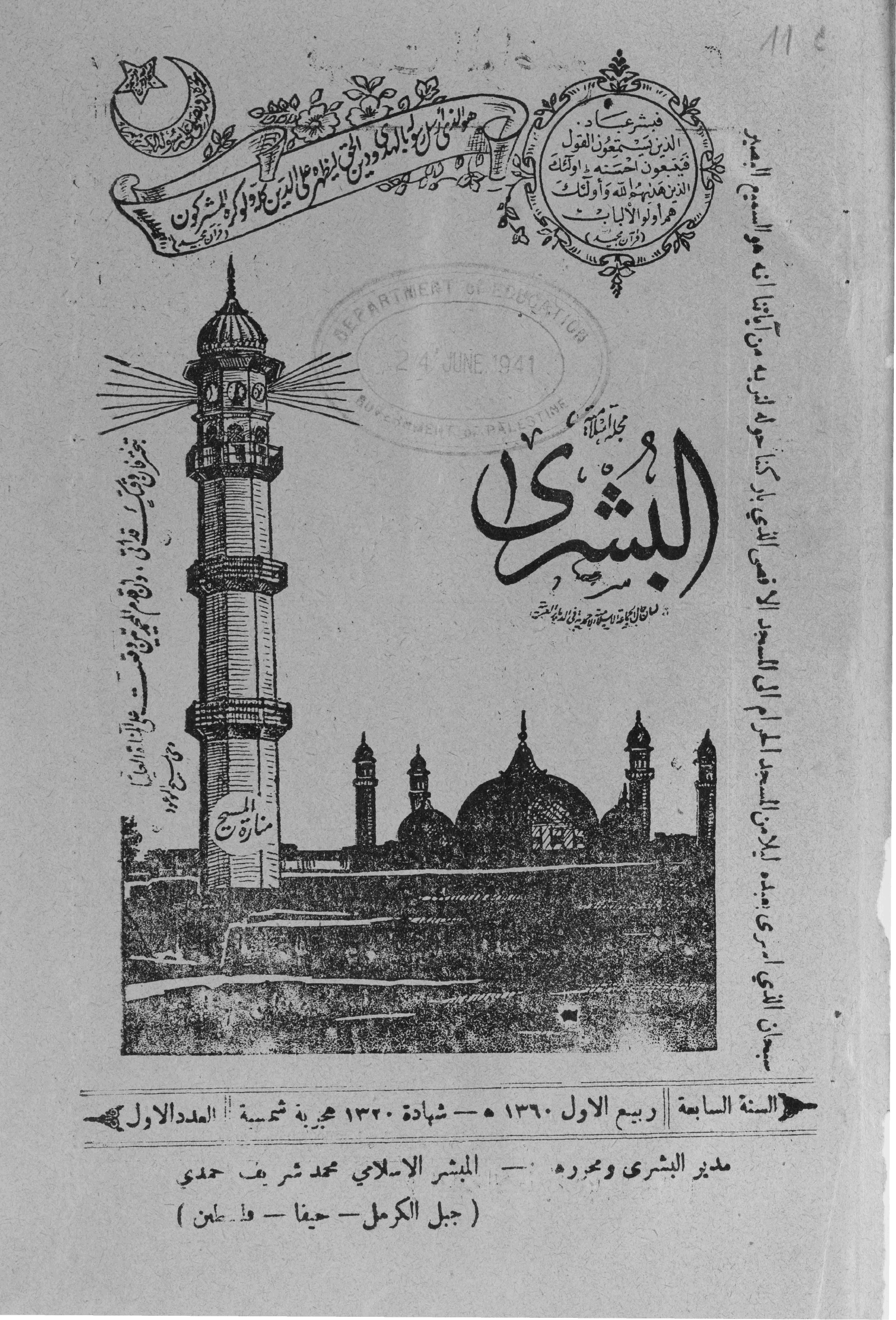 Palestinian Islamic newspaper